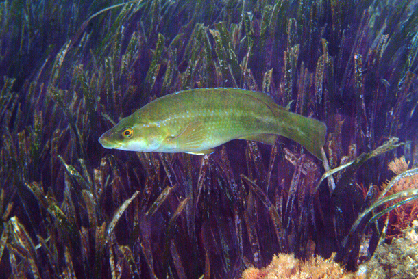 Labrus merula photographed near Tuscany coasts. Photo by Stefano Guerrieri.